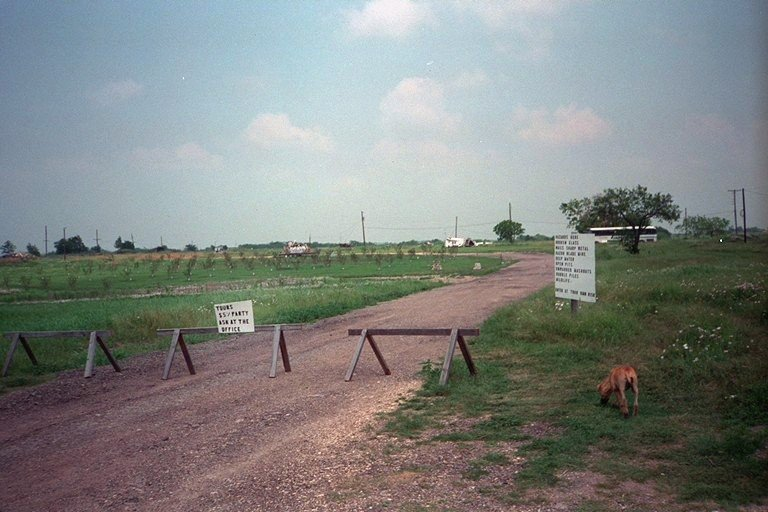 Driveway to Mount Carmel, Branch Davidian site, 1995.